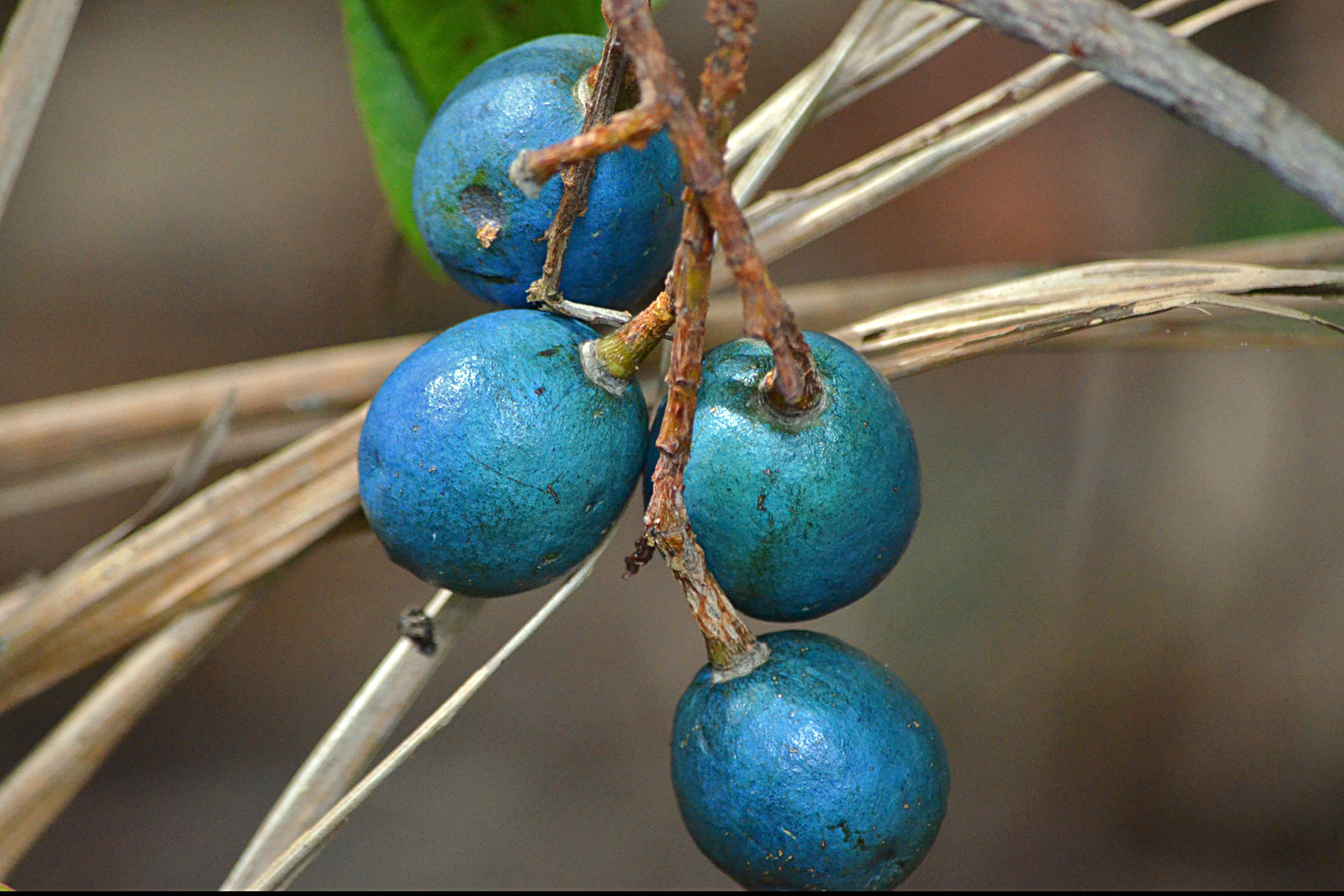 Blue Quandong fruit at the Cairns Botanic Garden